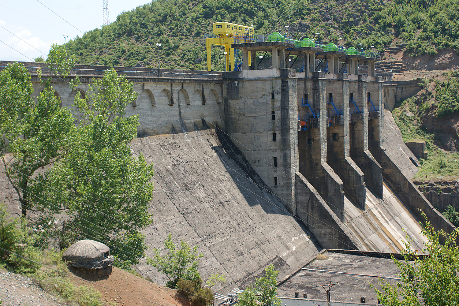 Dam of Lake Ulza at Mat River, Ulza, Albania